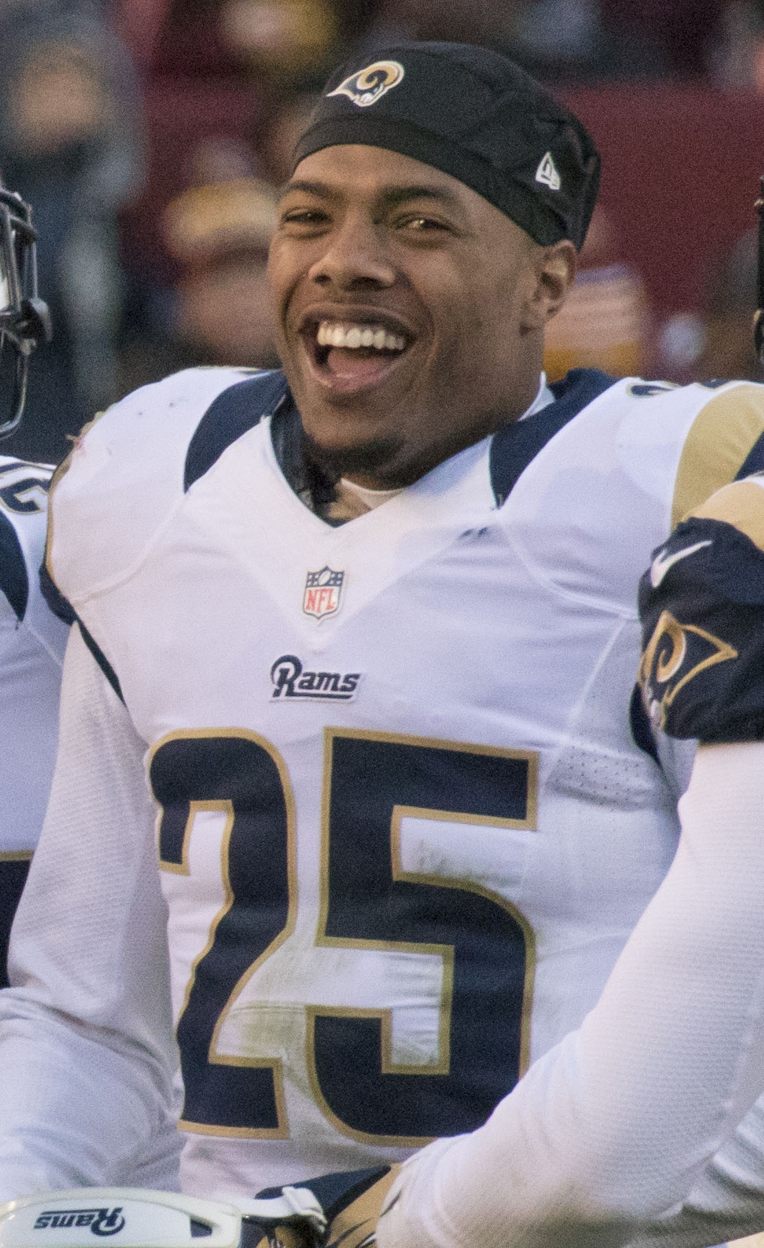 Rams at Redskins 12/7/14